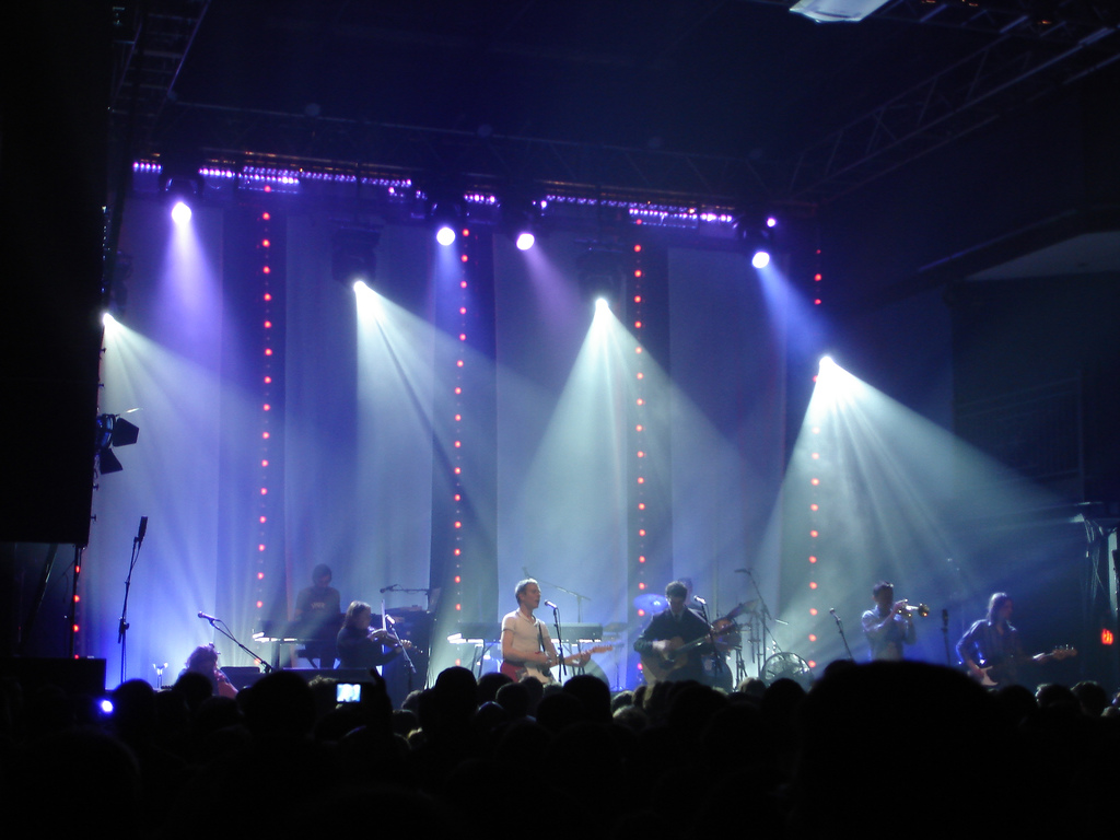 Belle & Sebastian performing at the Nightclub 9:30, in Washington D.C., in March 2006.